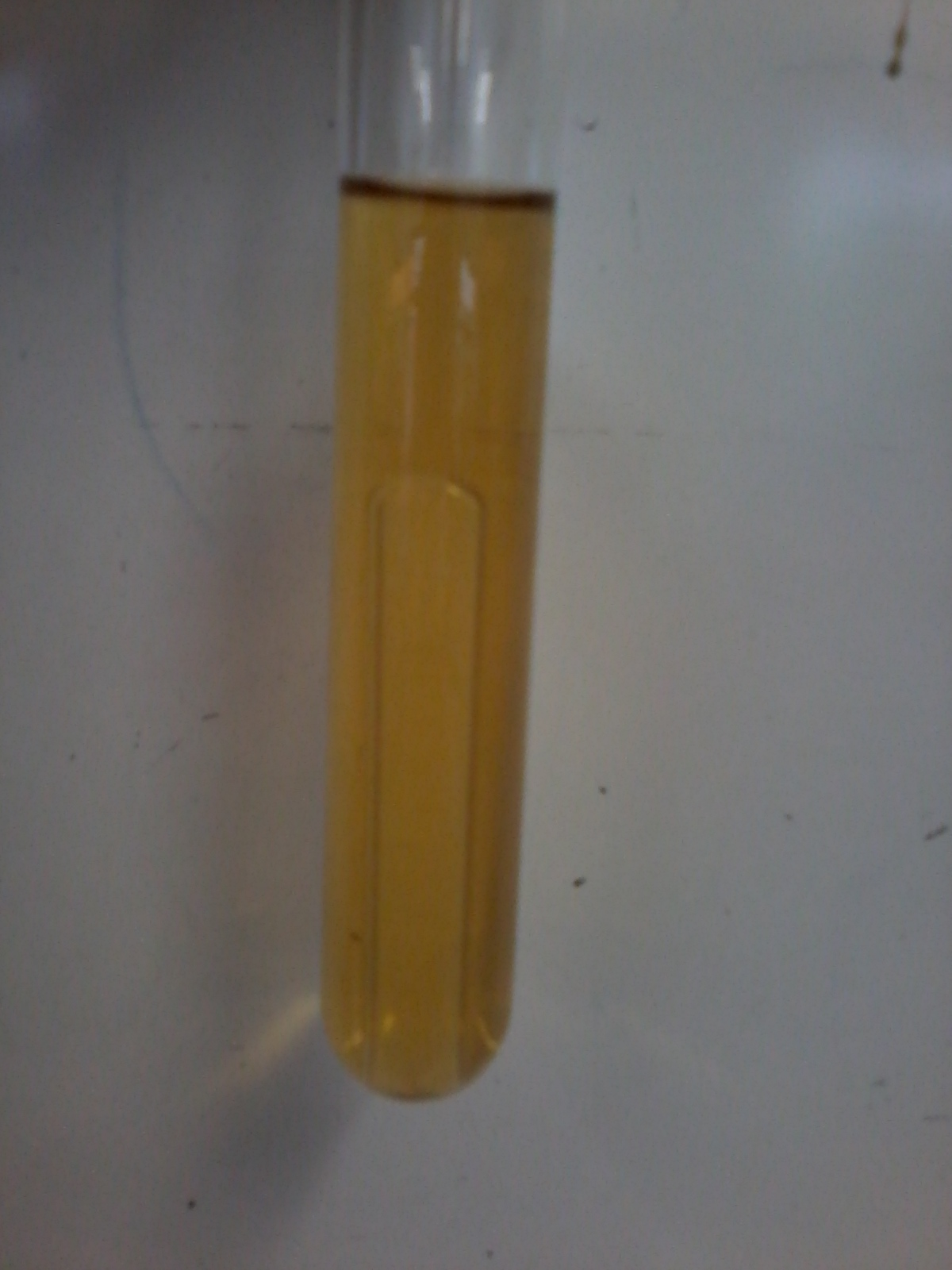 durham tube for microbiological analysis to detect gas production